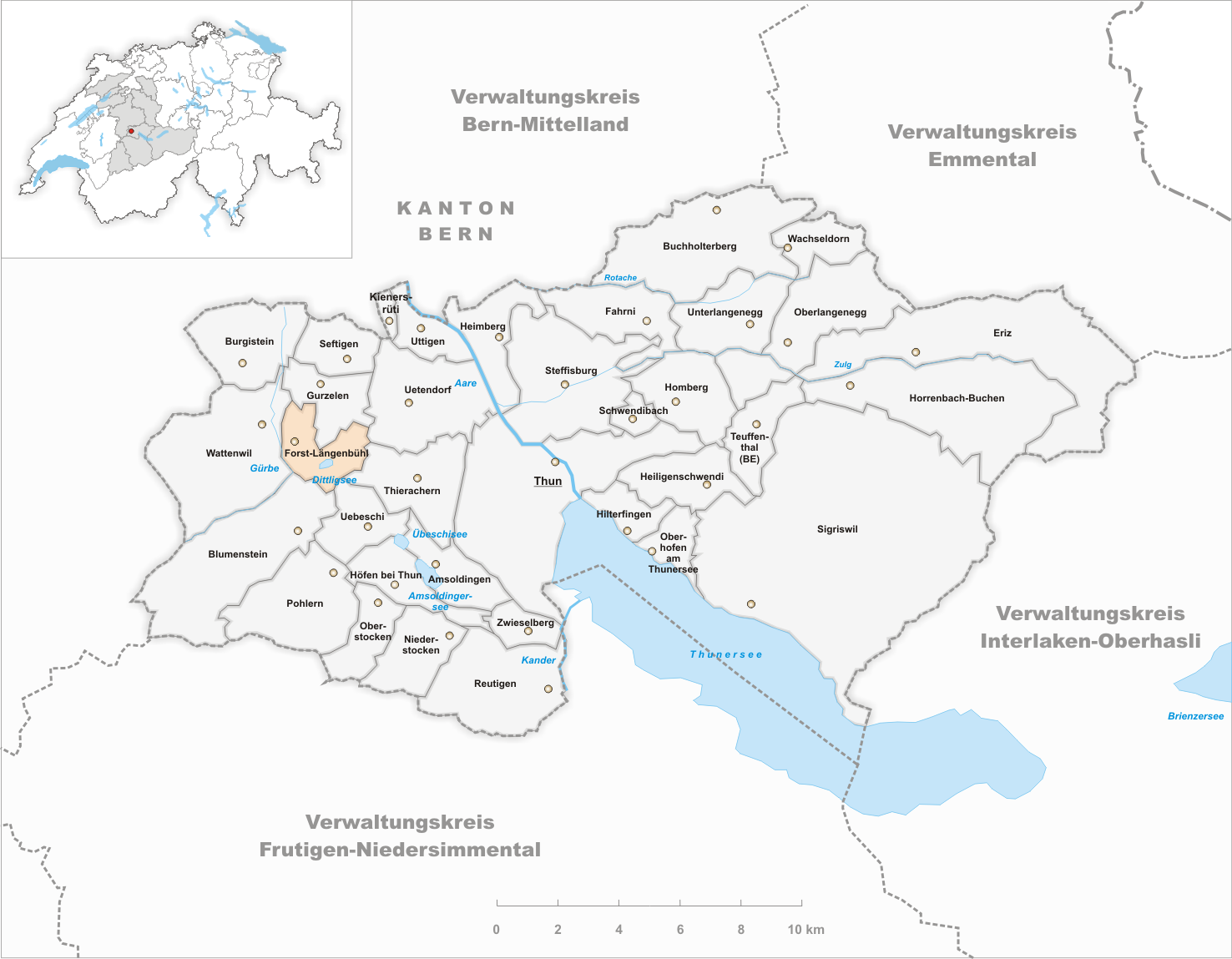 Municipality Forst-Längenbühl